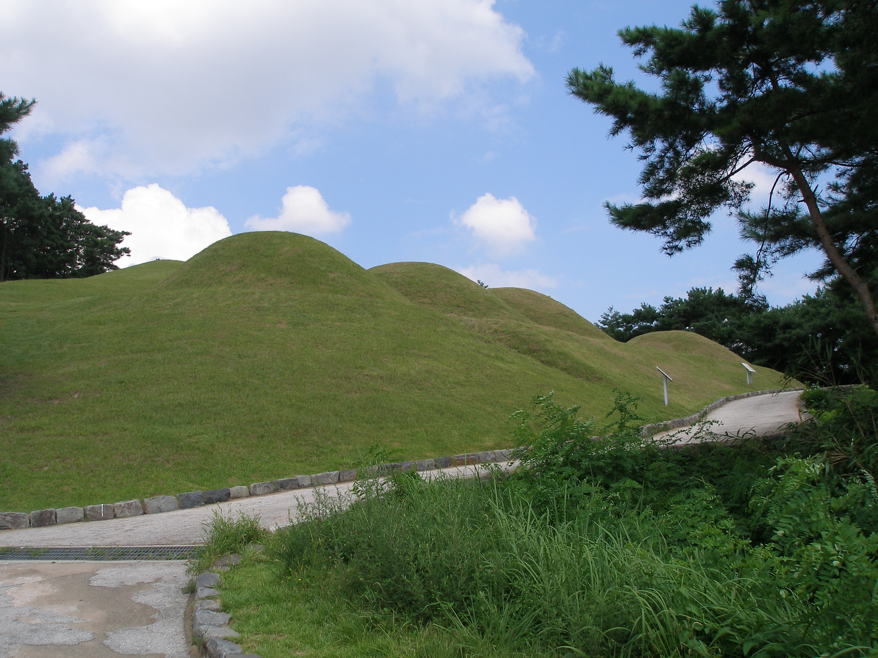 Tomb No. 1,2,3,4 of Songsan-ri, Gongju, Kore